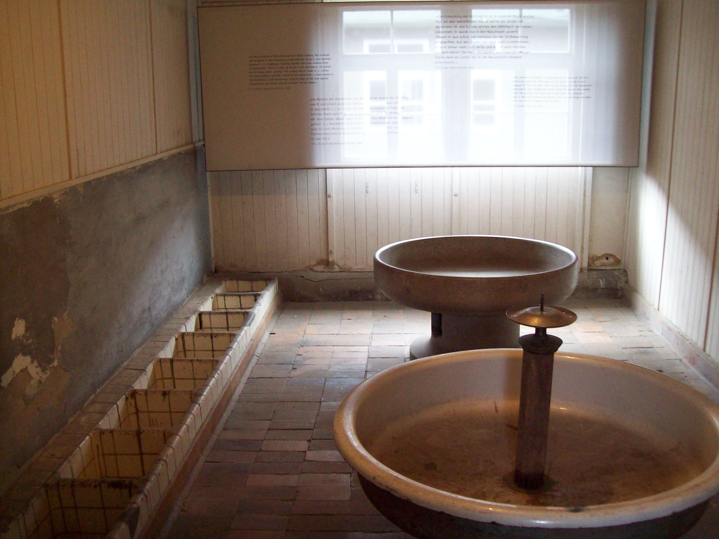 Sachsenhausen Concentration camp washing area of a prisoner accommodation barracks.